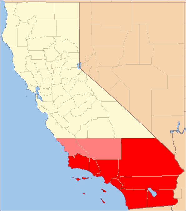 Southern California counties marked in red.